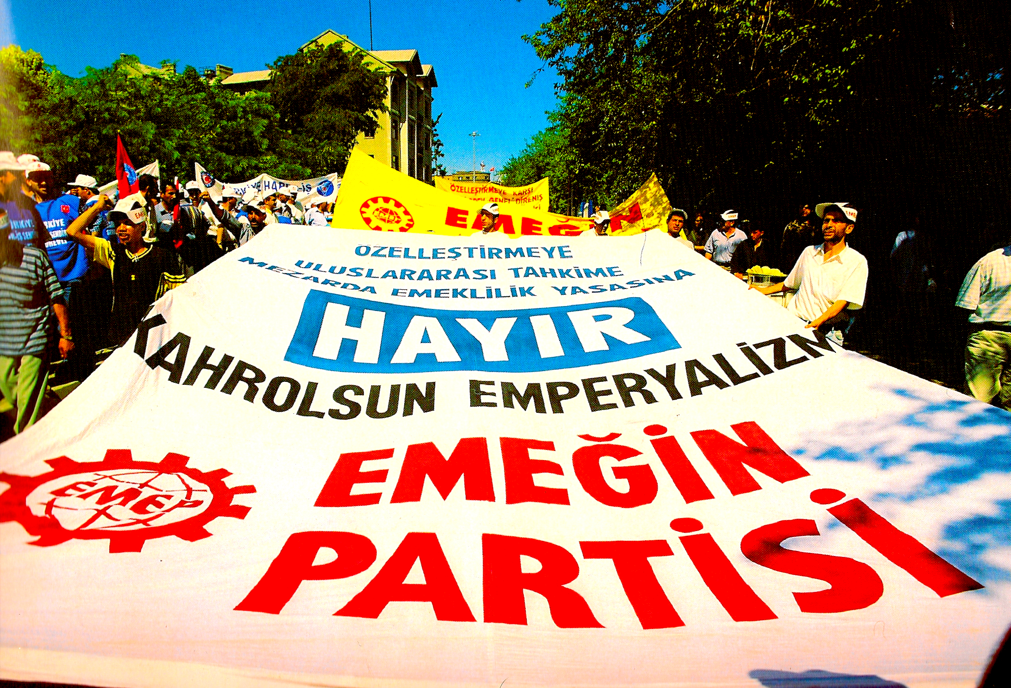 Pankart of Labour Party against the imperialism.